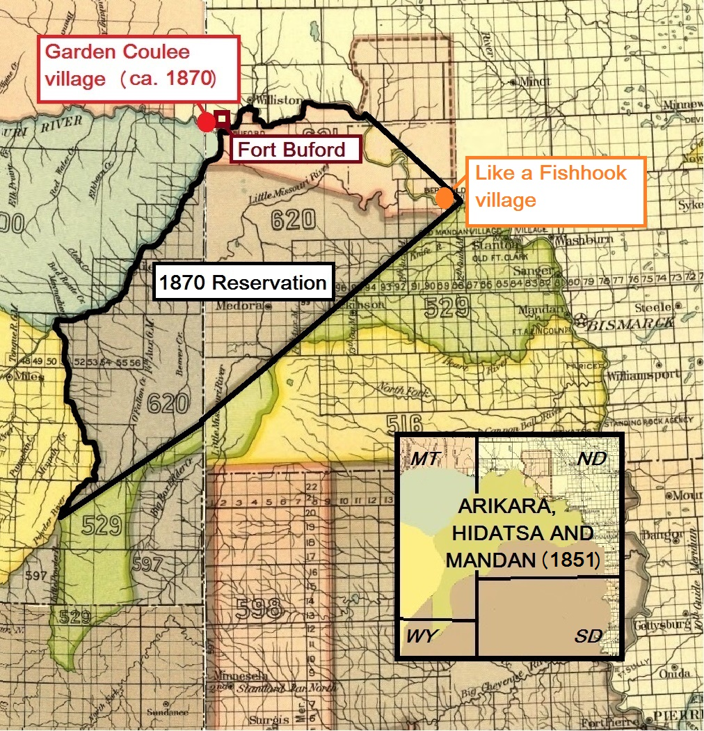 The village of Hidatsa chief Crow Flies High near Fort Buford, North Dakota and the Fort Berthold Indian reservation established 1970. Small map shows boundaries of the Three Tribes according to the Fort Laramie treaty (1851)